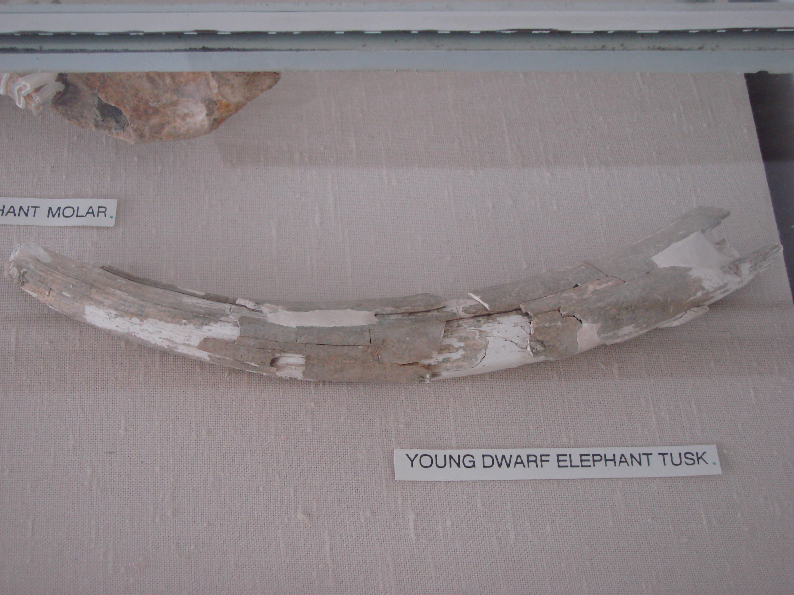 Young Cyprus dwarf elephant (Palaeoloxodon cypriotes) tusk and molar, Limassol Archeological Museum.